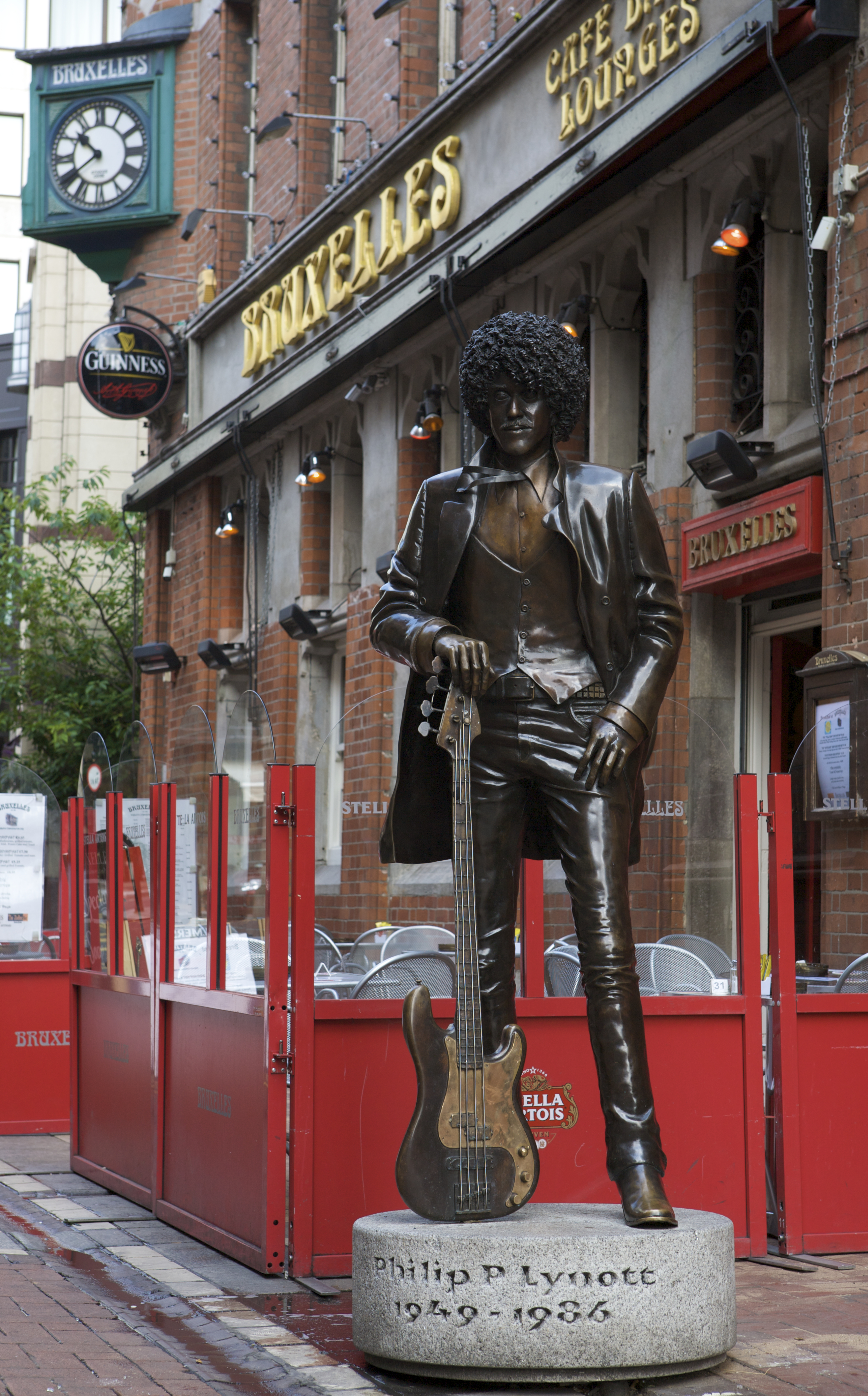 Statue of Philip Lynott outside Bruxelles club in Harry Street, Dublin, Ireland